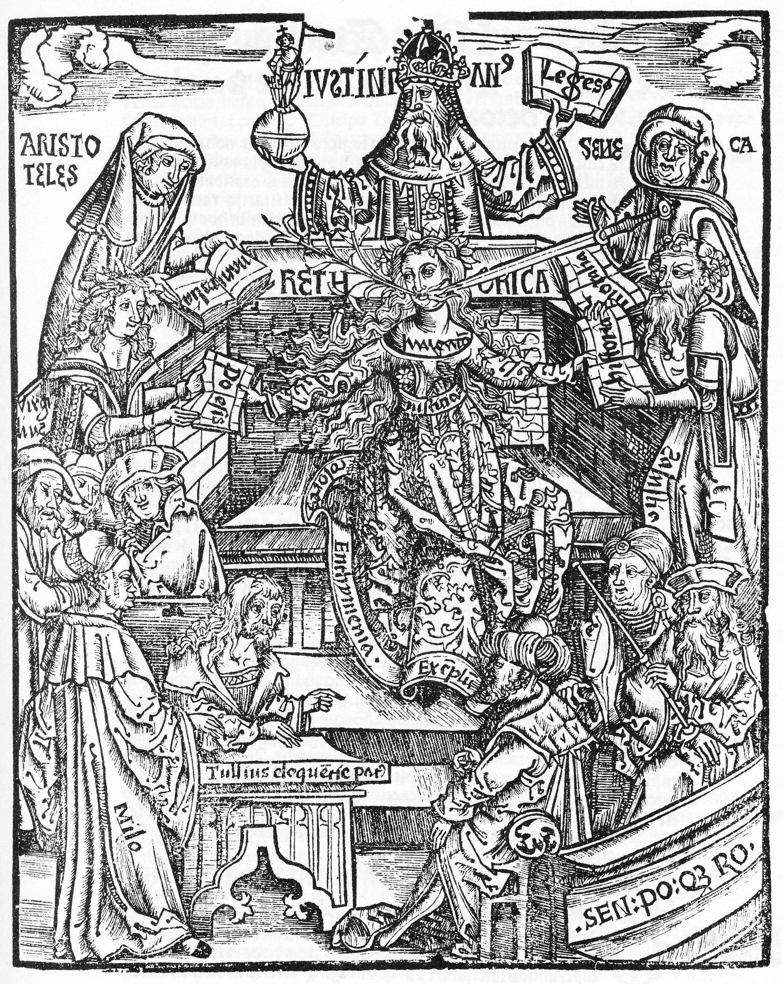 Woodcut entitled Rethorica (recte Rhetorica, i.e. “Rhetoric”), showing an allegory/personification of the traditional rhetoric, from Gregor Reisch, Margarita philosophica, 4th authorized edition Basel 1517, book III tractatus I, page 123.